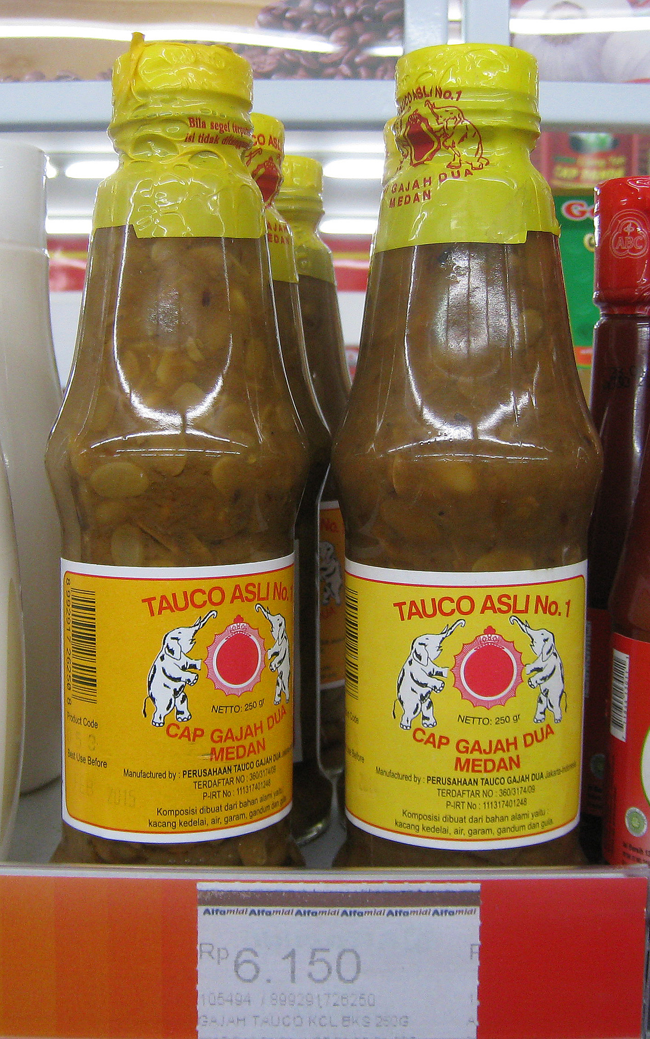 Bottled tauco, Indonesian fermented soy product, usually used as sauce for vegetables or fish. In a supermarket in Jakarta, Indonesia.